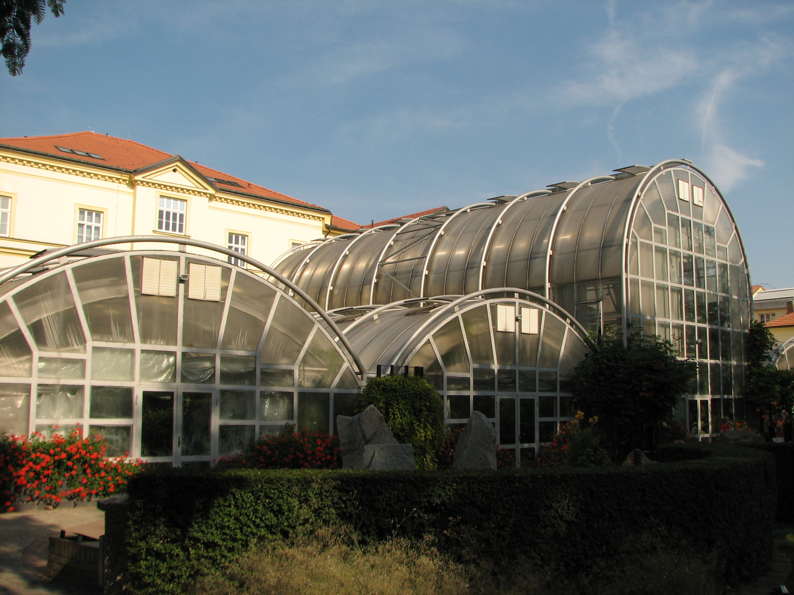 Botanical garden at the Faculty of science in Brno, CZ - greenhouses